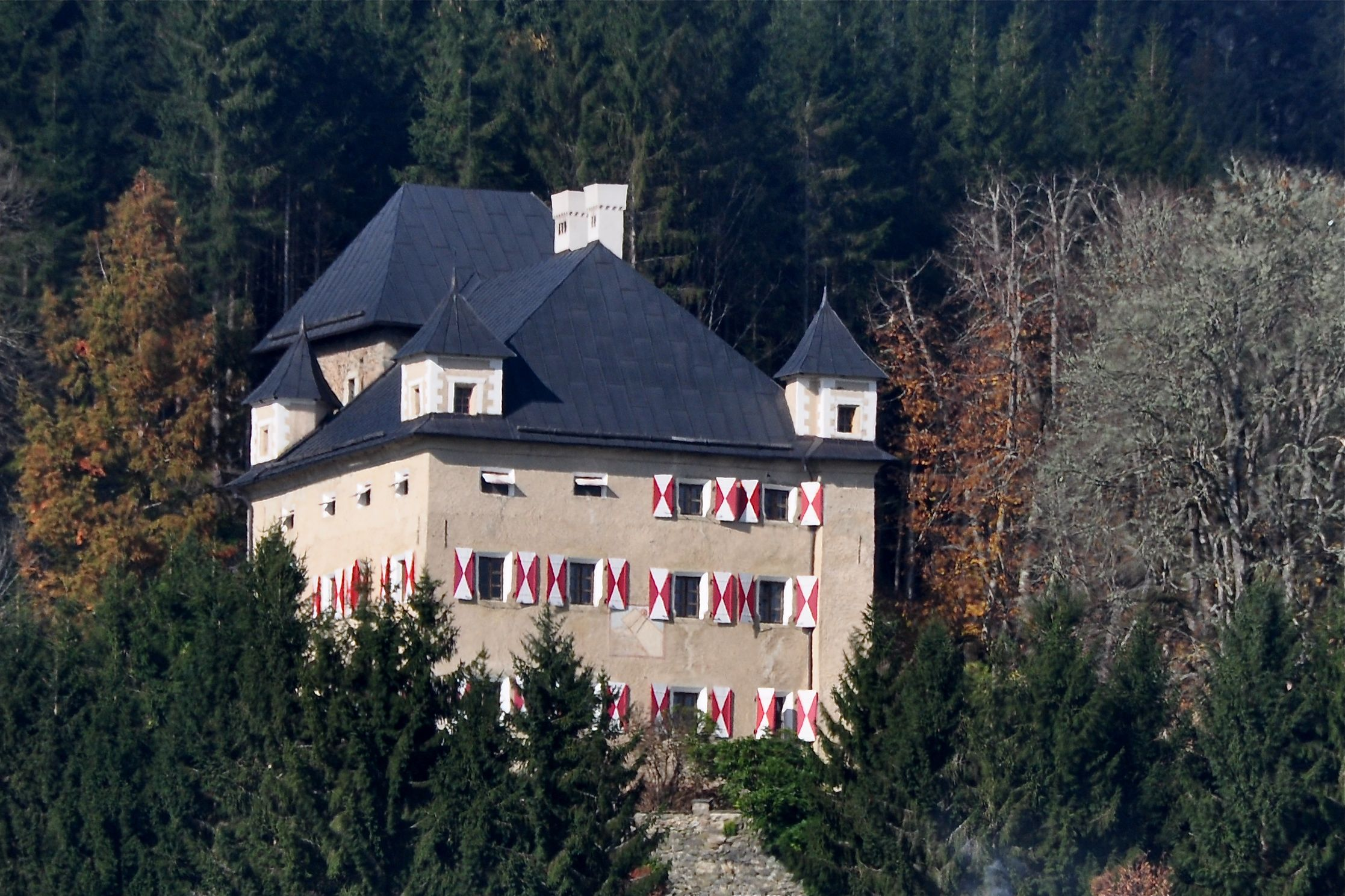 Castle Thurnhof in Zweinitz #11, market town Weitensfeld, district Sankt Veit an der Glan, Carinthia, Austria, EU